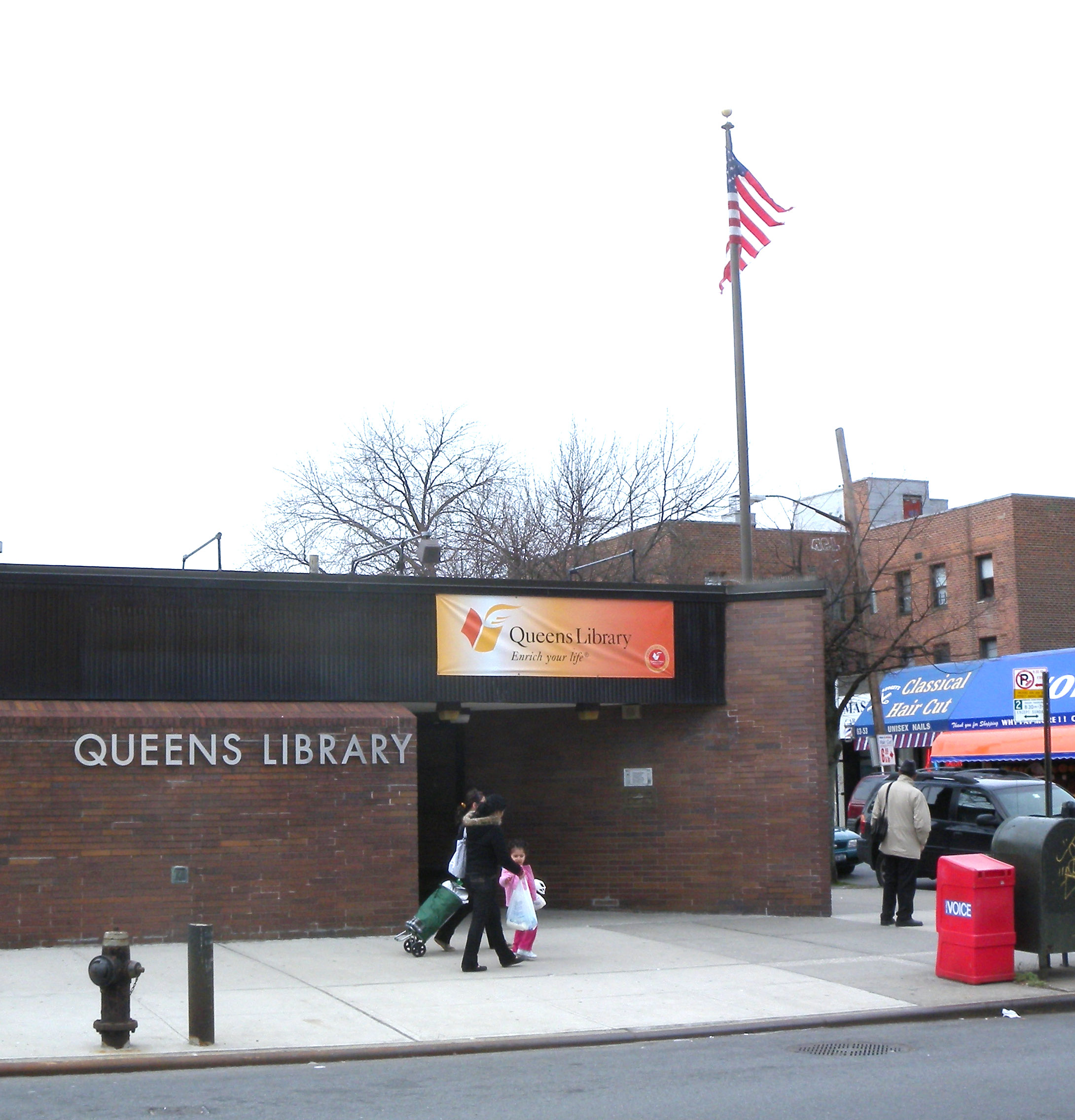 Looking northwest at Rego Park Branch of QPL on a cloudy early afternoon.